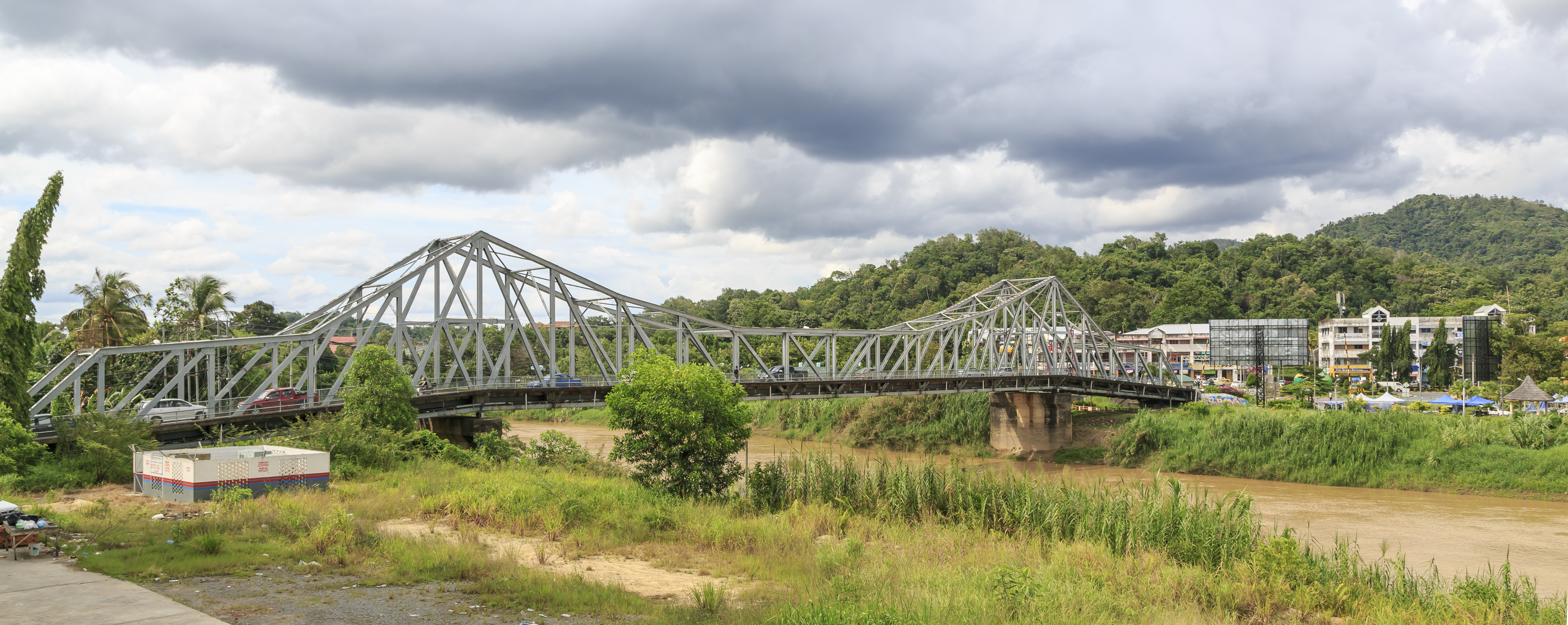 Beaufort, Sabah, Malaysia: Bridge over Sungai Padas (Padas River) in Beaufort